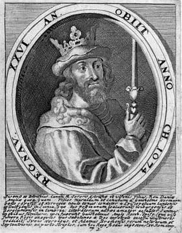 Danish king Svend Estridsen (1074), engraving